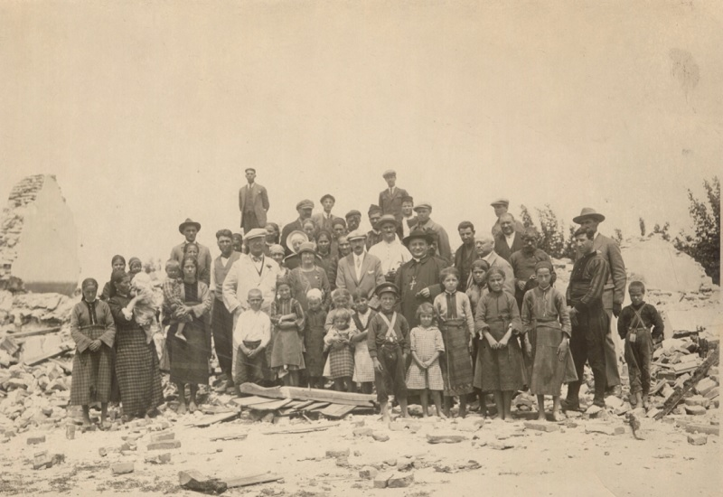 The Bulgarian Tsar Boris III with Mr. Joseph Moore, Secretary of the Catholic Foundation for America's Aid to the Middle East, with his wife, Bishop Angelo Ronkali with locals near the earthquake destroyed buildings in Belozem village, Plovdiv, 1928.